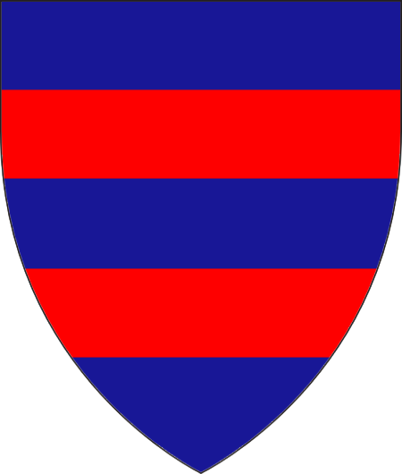 Coat of arms representing region of Dubrovnik in the crown of the official coat of arms of Croatia.